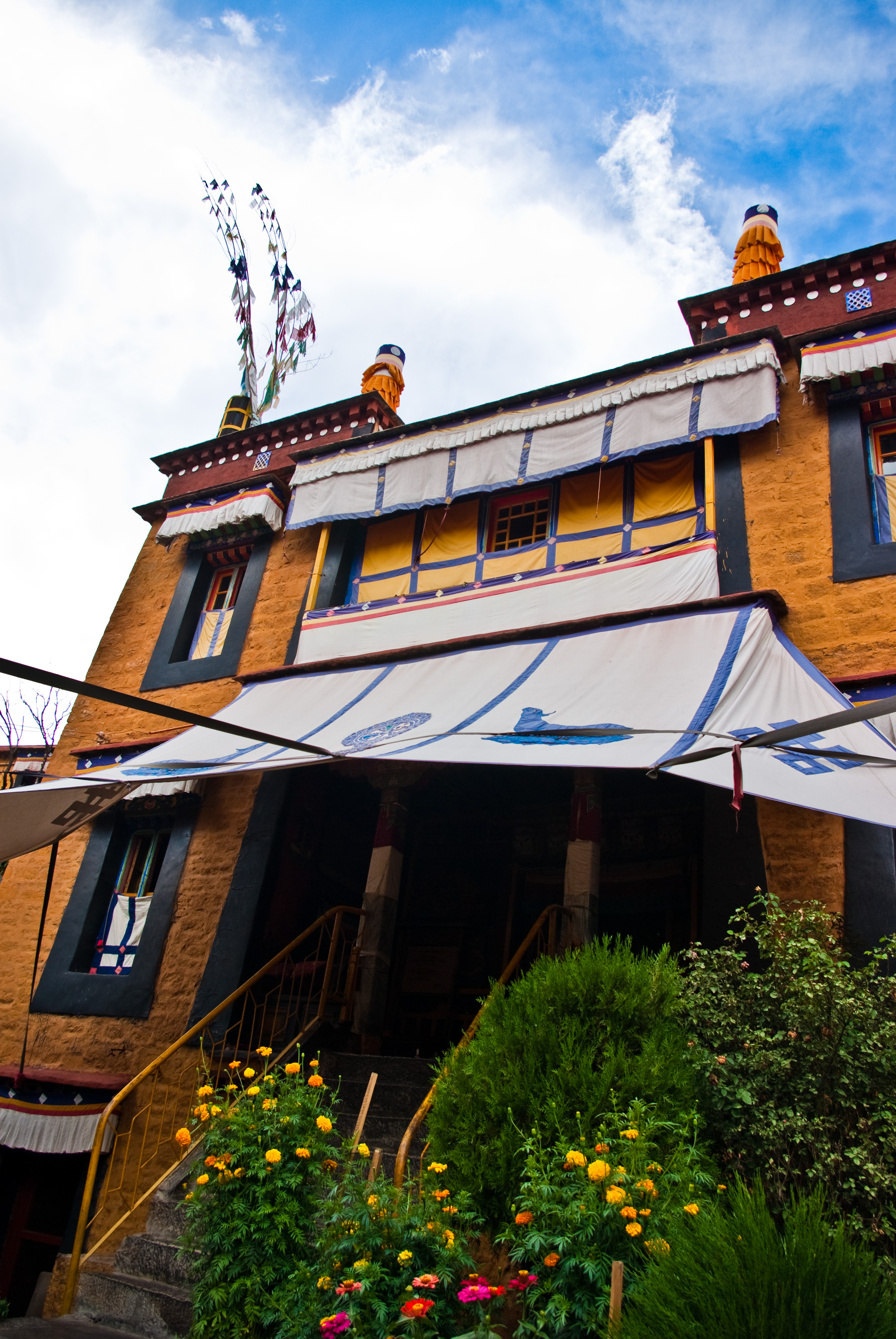 Ani Tsankhung (or Sankhung) Nunnery in Lhasa